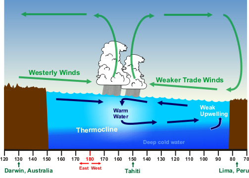 El Niño Conditions. Warm water pool approaches South American coast. Absence of cold upwelling increases warming.